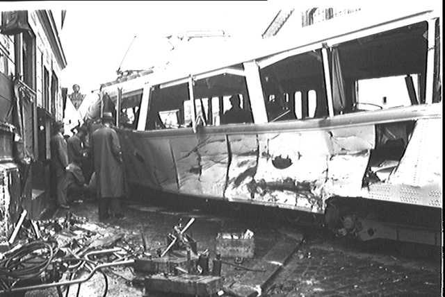 A Gullfisk tram on Kjelsåsbanen in Oslo, Norway